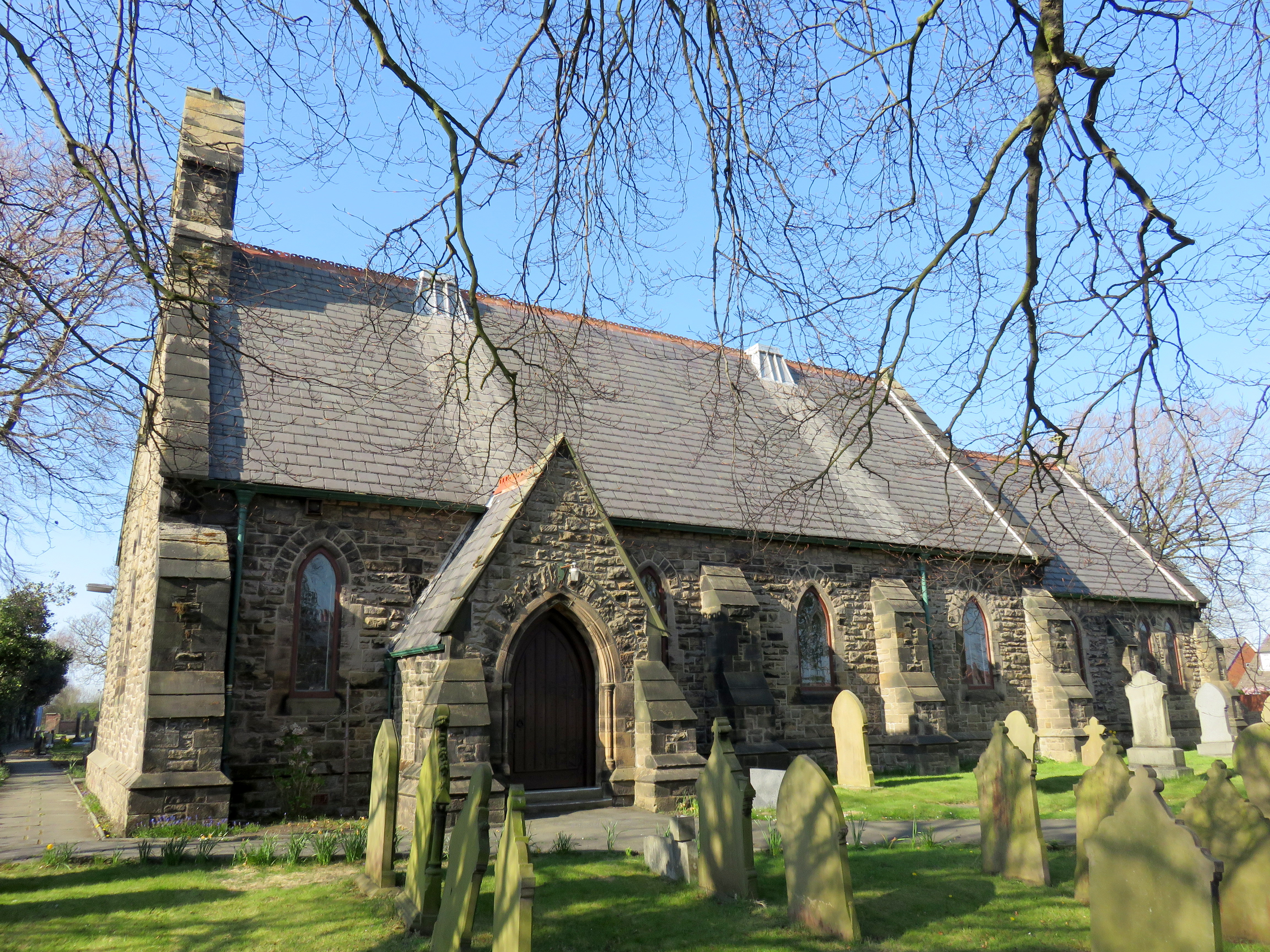 St Mark's Church, Scarisbrick, view from the south.